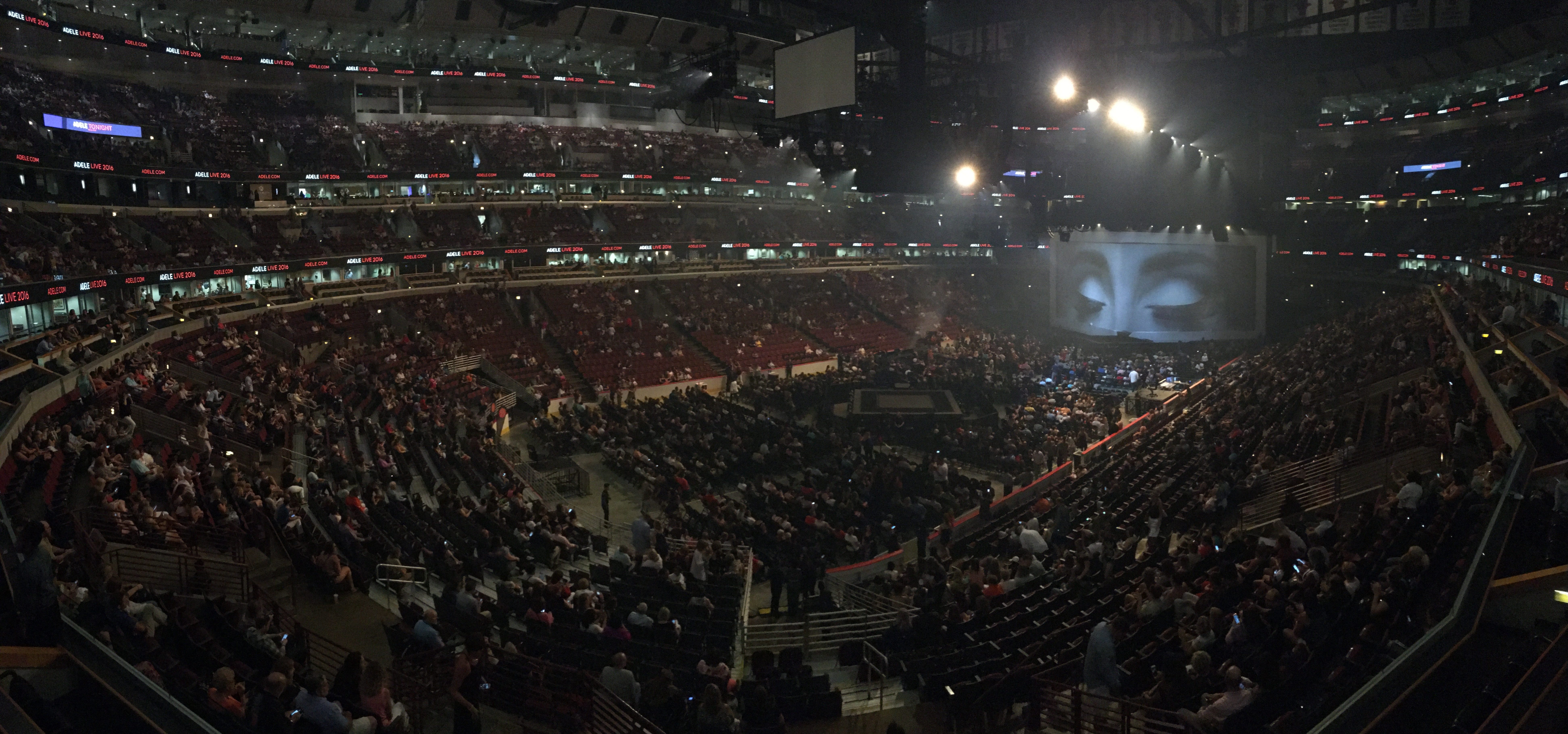 Adele Chicago